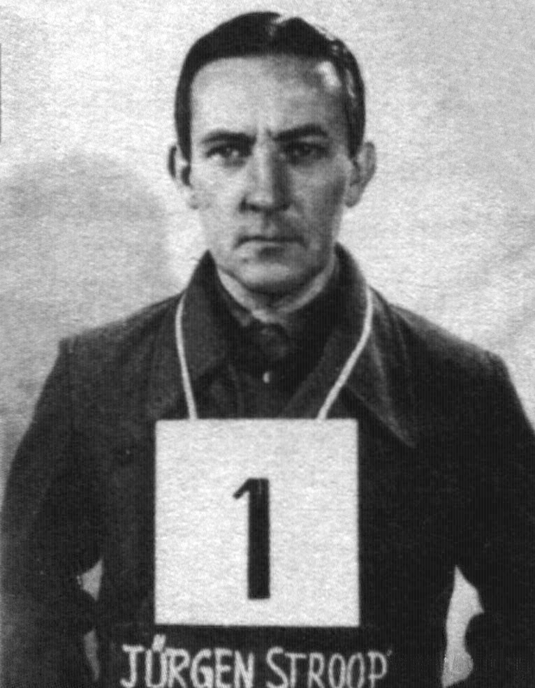 Jürgen Stroop capture photo